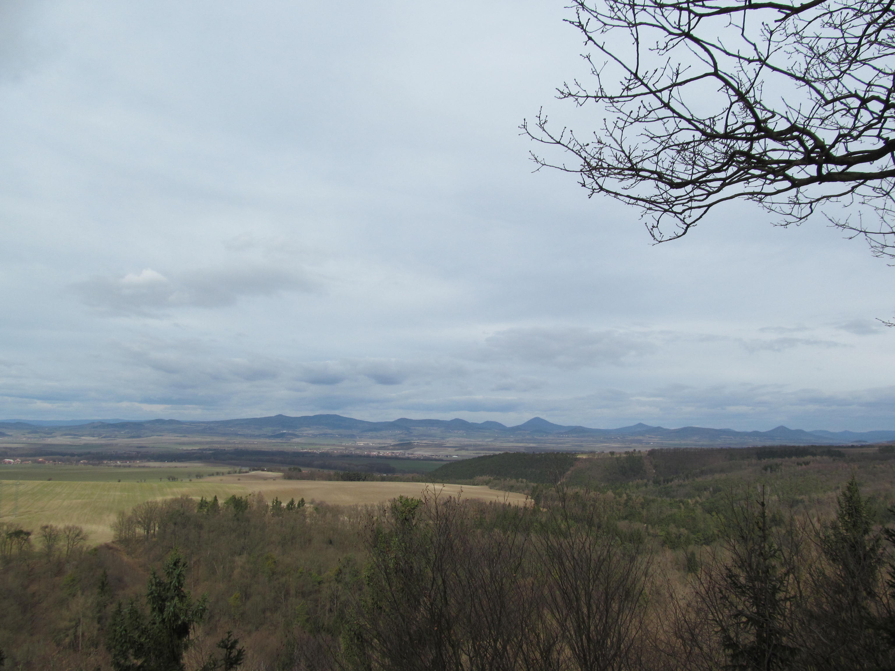 View from Krásná vyhlídka by Peruc